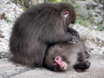 Japanese macaque (Macaca fuscata).